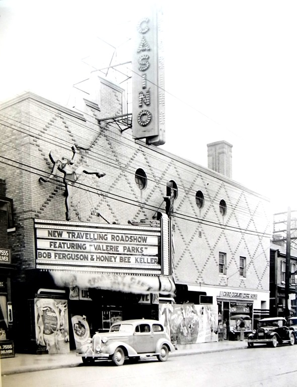 Original caption: “This photo from the City of Toronto Archives (TTC Collection, PC147), depicts the Casino Theatre and the Casino Cigar and Coffee Shop located in the same building. The shop is on the right-hand side of the picture. Valerie Parks, whose name appears on the marquee, was a famous burlesque star during the 1940s. She was known as the “Personality Girl.” Many men attended the casino to view her “big personalities.””